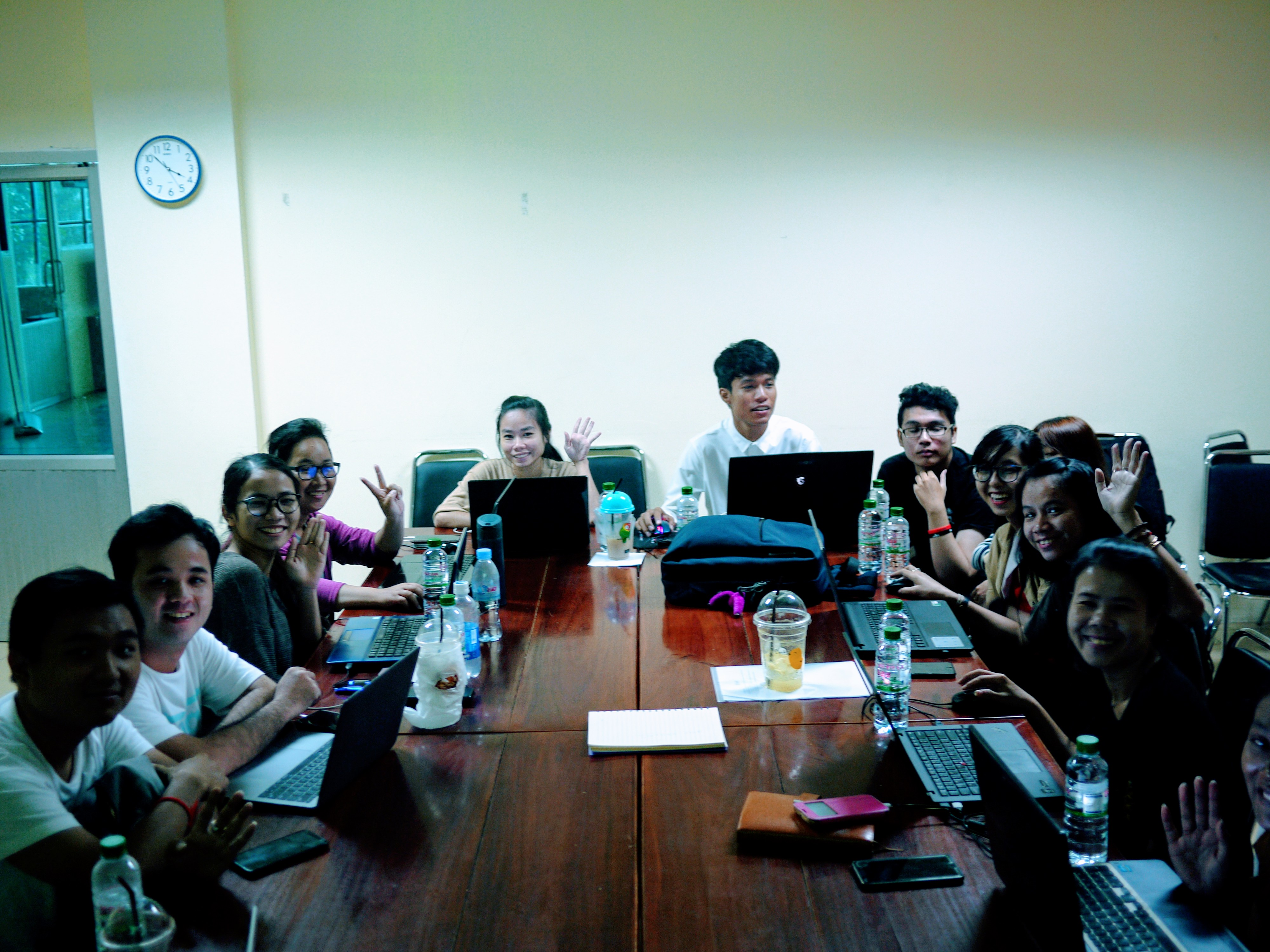 Students from the Faculty of Communications and Media Arts at Pannasastra University of Cambodia on 29 September 2018.